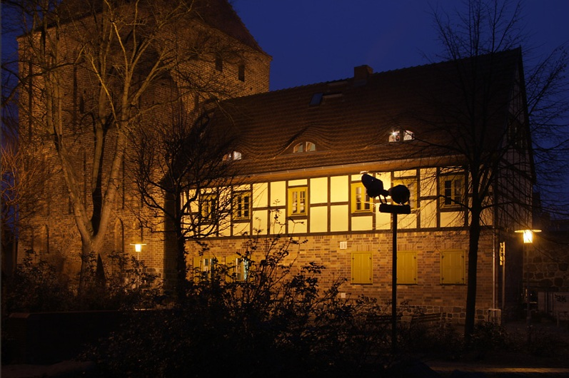 The town museum of Pasewalk at night.